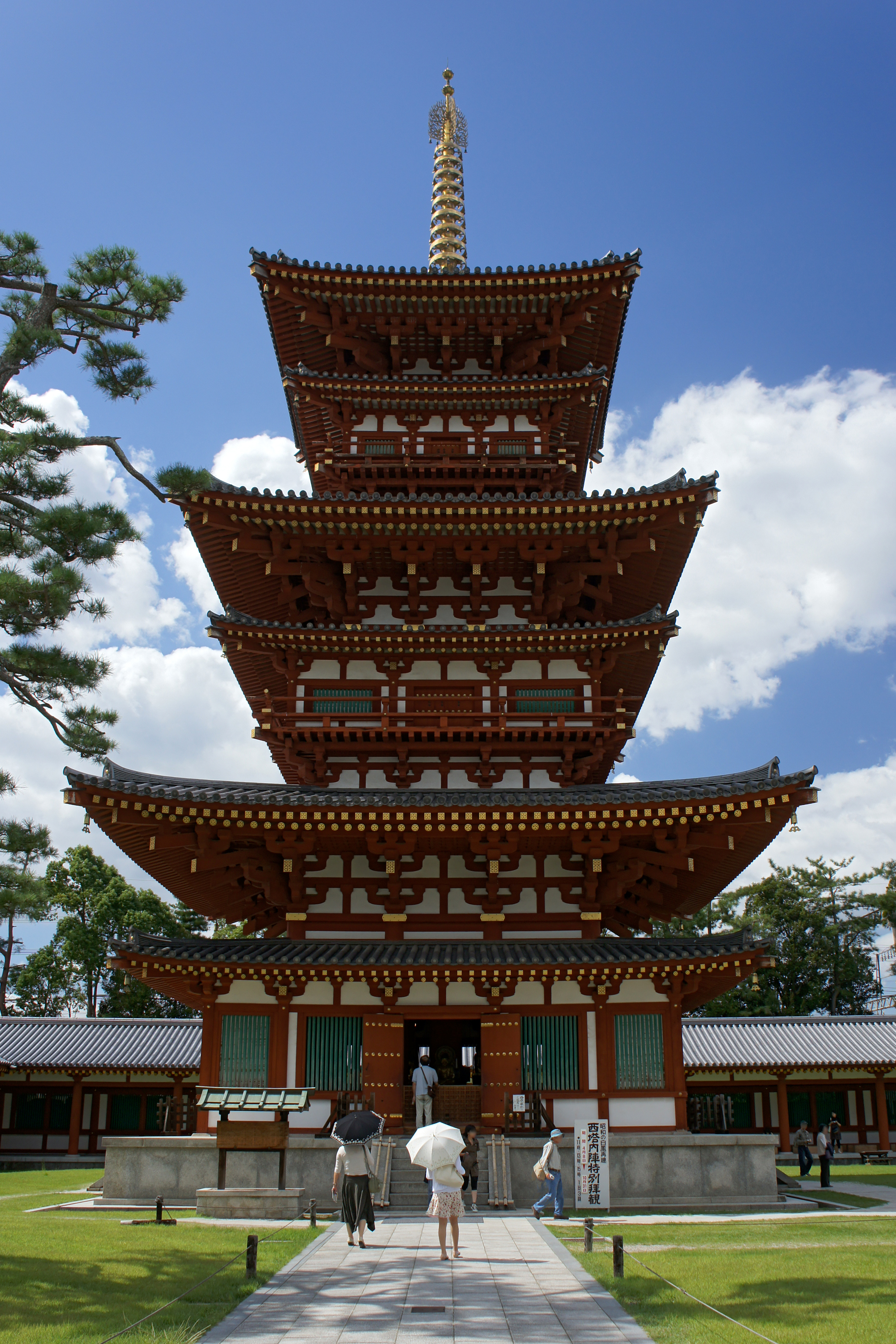 Yakushi-ji's West Pagoda in Nara, Nara prefecture, Japan. Yakushi-ji was registered as part of the UNESCO World Heritage Site "Historic Monuments of Ancient Nara".